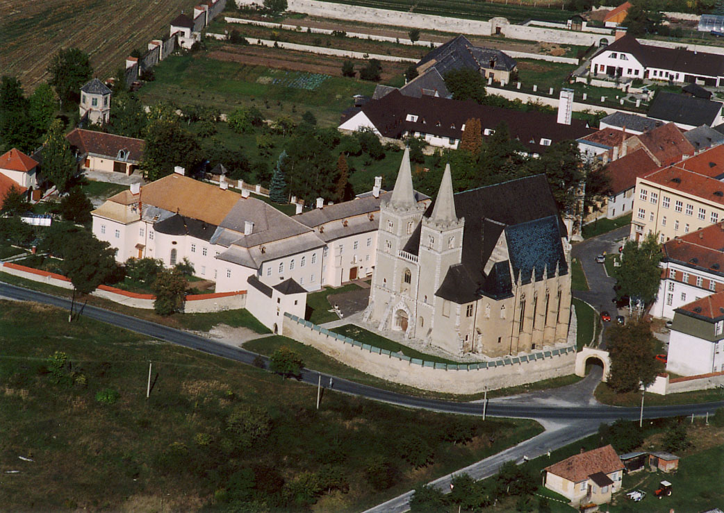 Spišské Podhradie - Slovakia - Europe